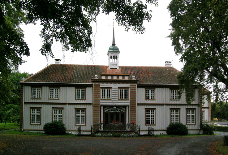 Leangen farm, Trondheim, Norway. Built 1822. Protected by law 1923.